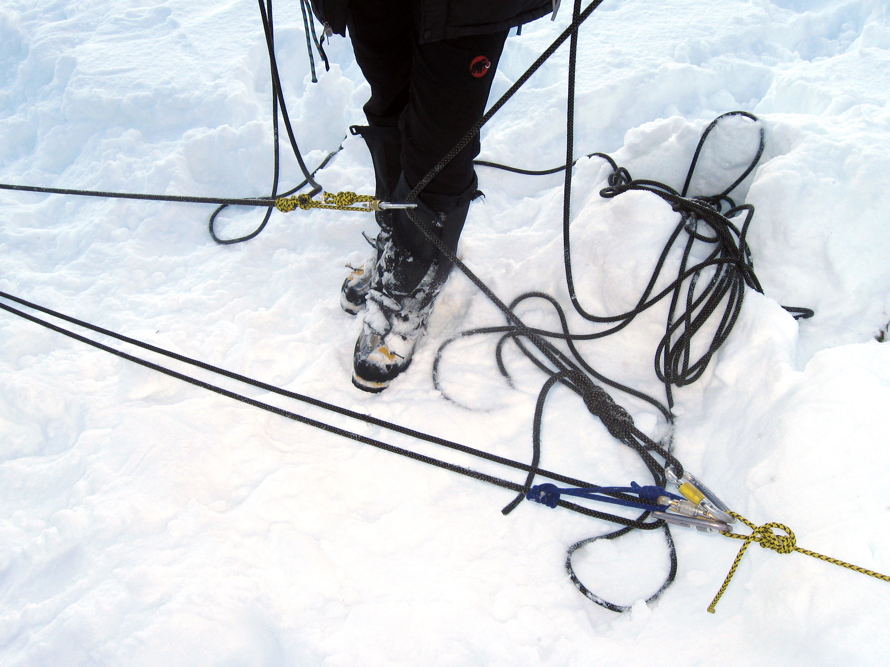 The final drills of the day were the preparation of C-pulley rescue systems and then their conversion to Z-pulleys. All of these skills require constant practice and reinforcement or they will be of little use in a real emergency.